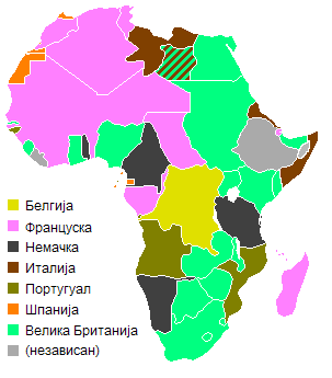 Map showing European claims on Africa in 1914